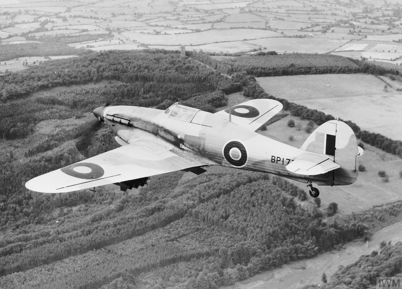 A Royal Air Force Hawker Hurricane Mark IV fighter-bomber in flight, August 1945. This aircraft is fitted with a deeper radiator and armed with rocket projectiles. The Hurricane Mark IVs utilised the 1460 hp Rolls Royce Merlin 20, 22 or 27 engine.